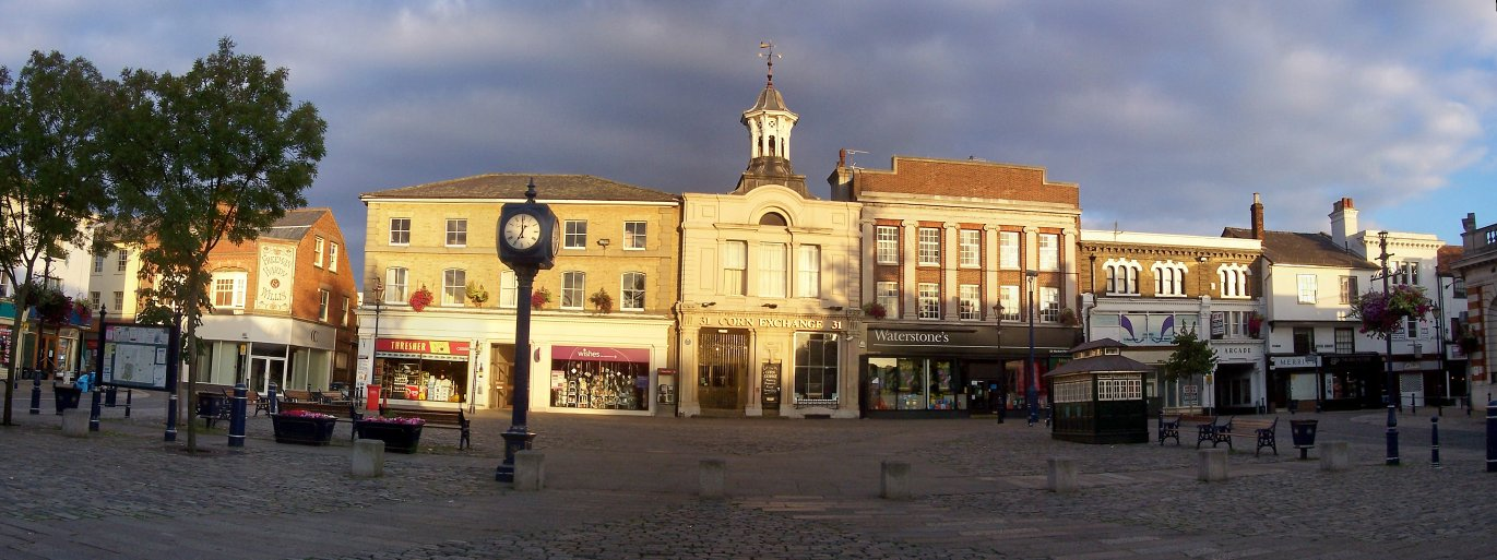 Hitchin Market Place